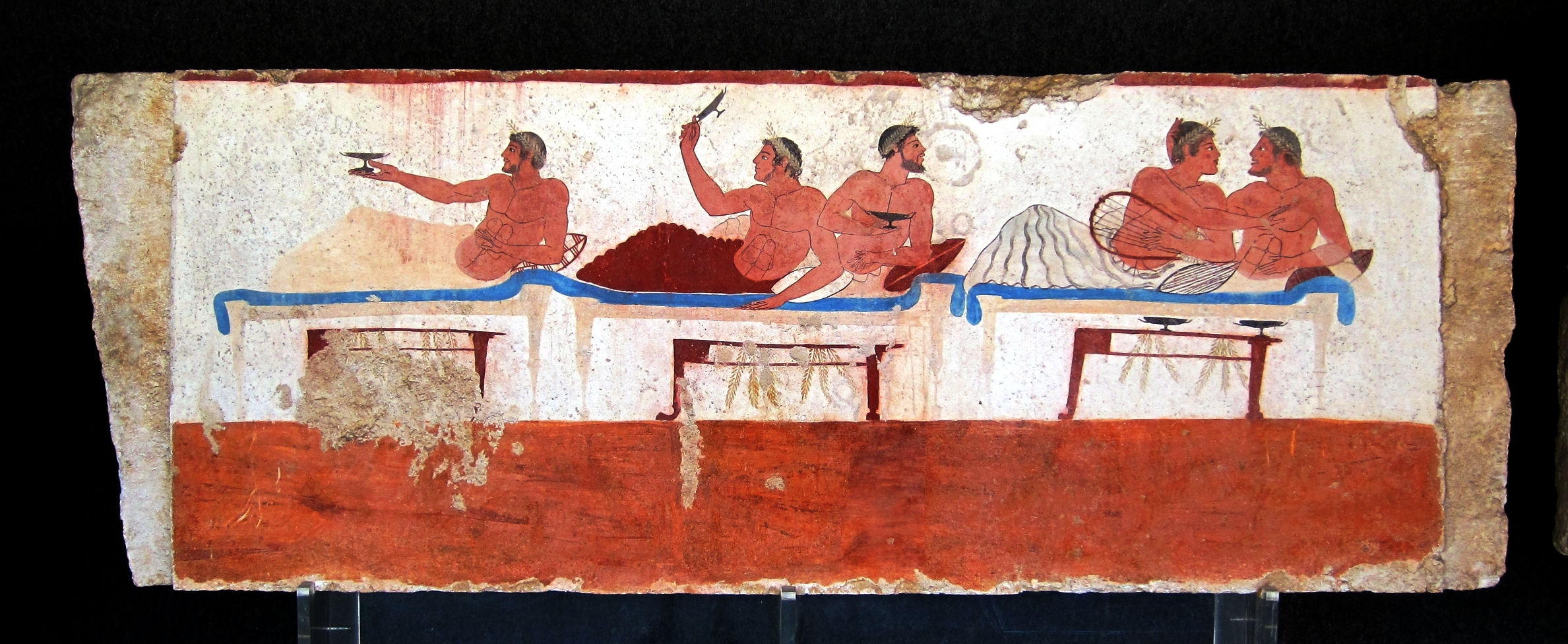 North wall of the Tomb of the diver in Paestum (470-480 BC).